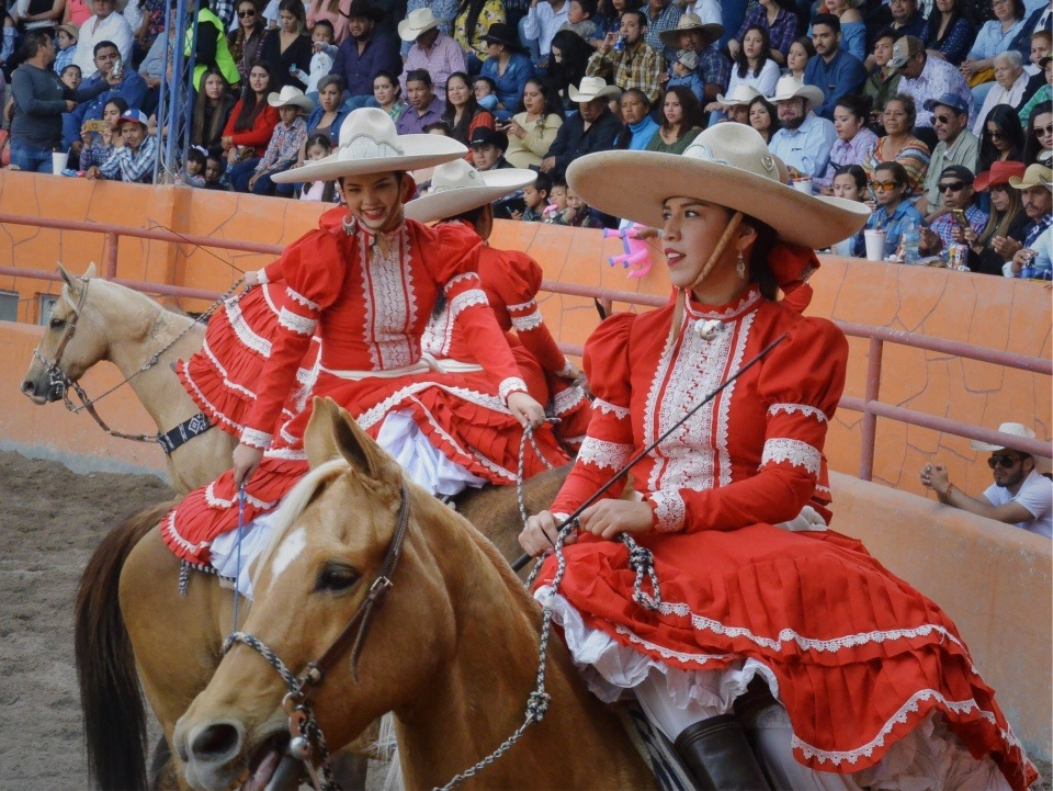 Escaramuza is an all-female sport in Mexican rodeo. Charras perform intricately synchronized routines while dressed in elegant and elaborate costumes. Teams perform in rodeos as well as in escaramuza competitions. This photo has been taken in the country: Mexico